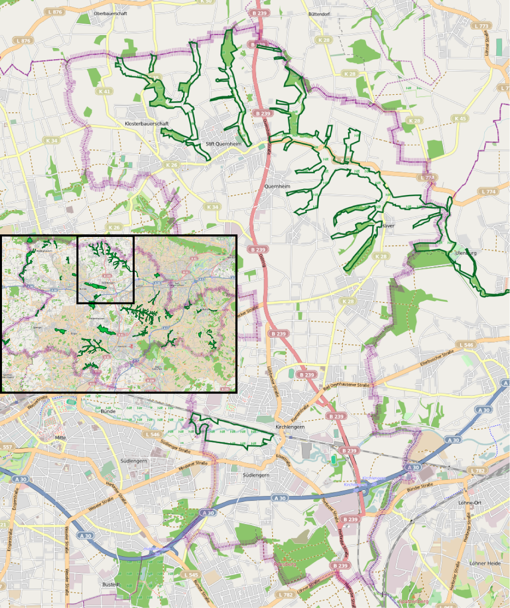 Nature reserves in Kirchlengern - overview map Number and borders of nature reserves are subject to frequent change. In order to facilitate reproduction of this map from openstreetmap, the following data is stored here: export boundaries: north: 52.265; west: 8.57; east: 8.7; south: 52.17; mapnik svg, scale 1:50.000 nature reserve boundary stroke weight 3.5; nature reserve stroke color: R 5, G 102, B 36; district border stroke weight: 20